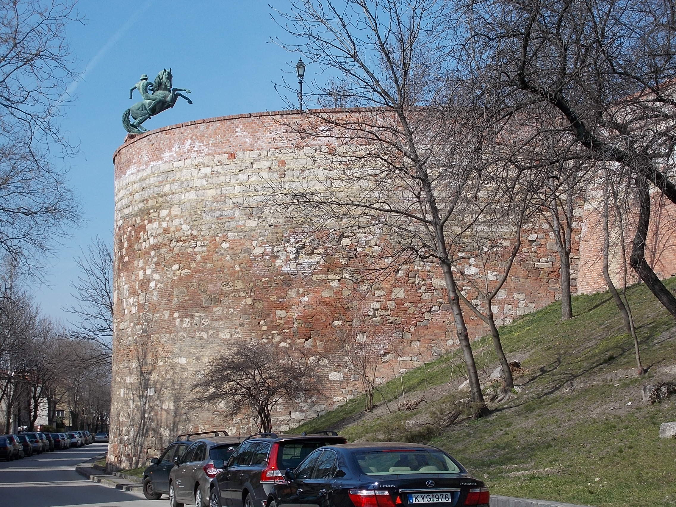 Buda Castle. Citizen quarter. Veli Bey Kulesi. (Veli Bey tower) the Transylvanian Second Hussars memorial